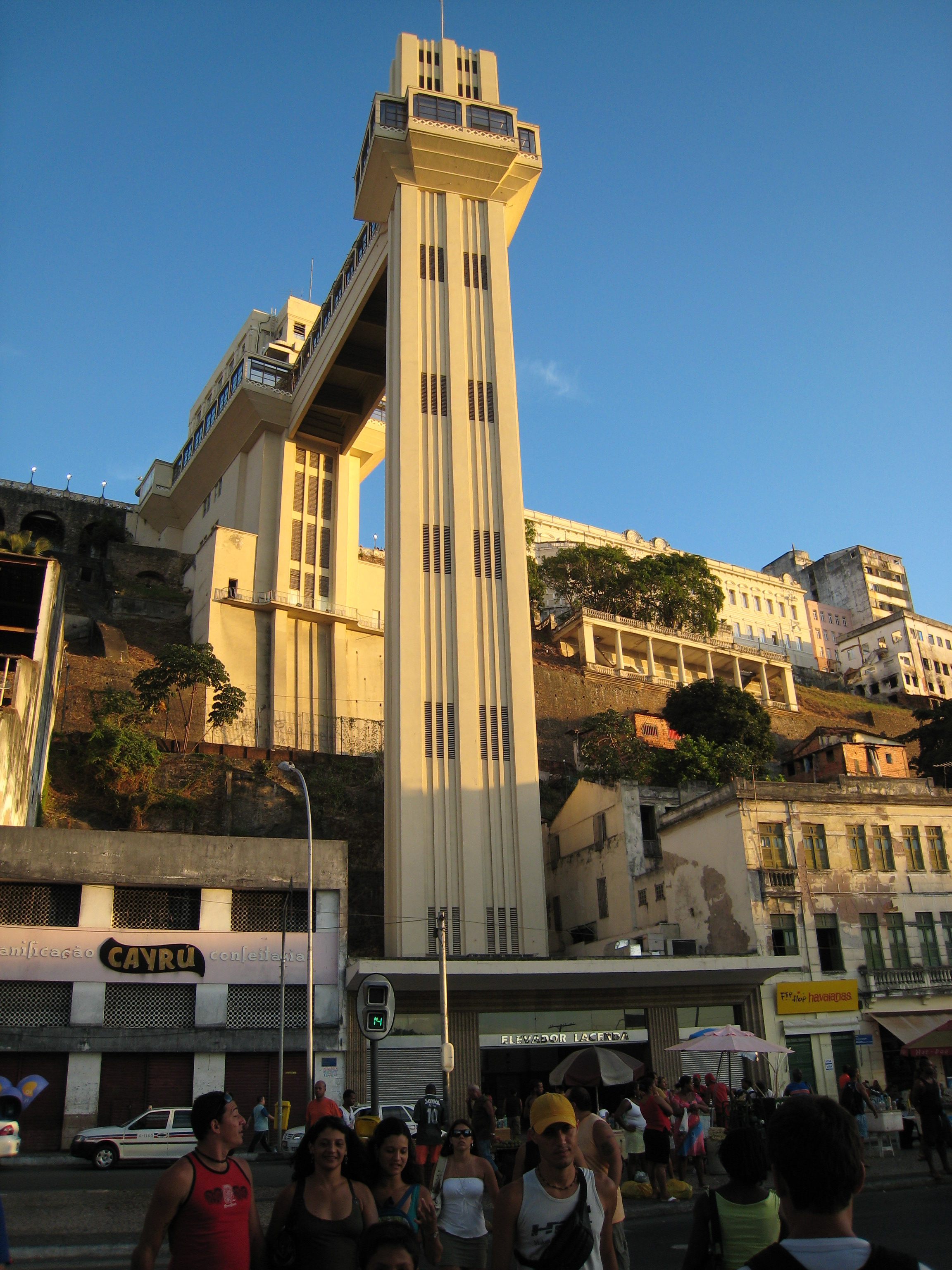 The elevator in Salvador, Bahia, Brazil between the high and low parts of the city.